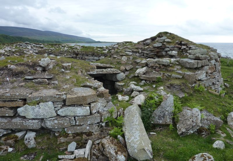 Cinn Trolla Broch, Sutherland, Scotland